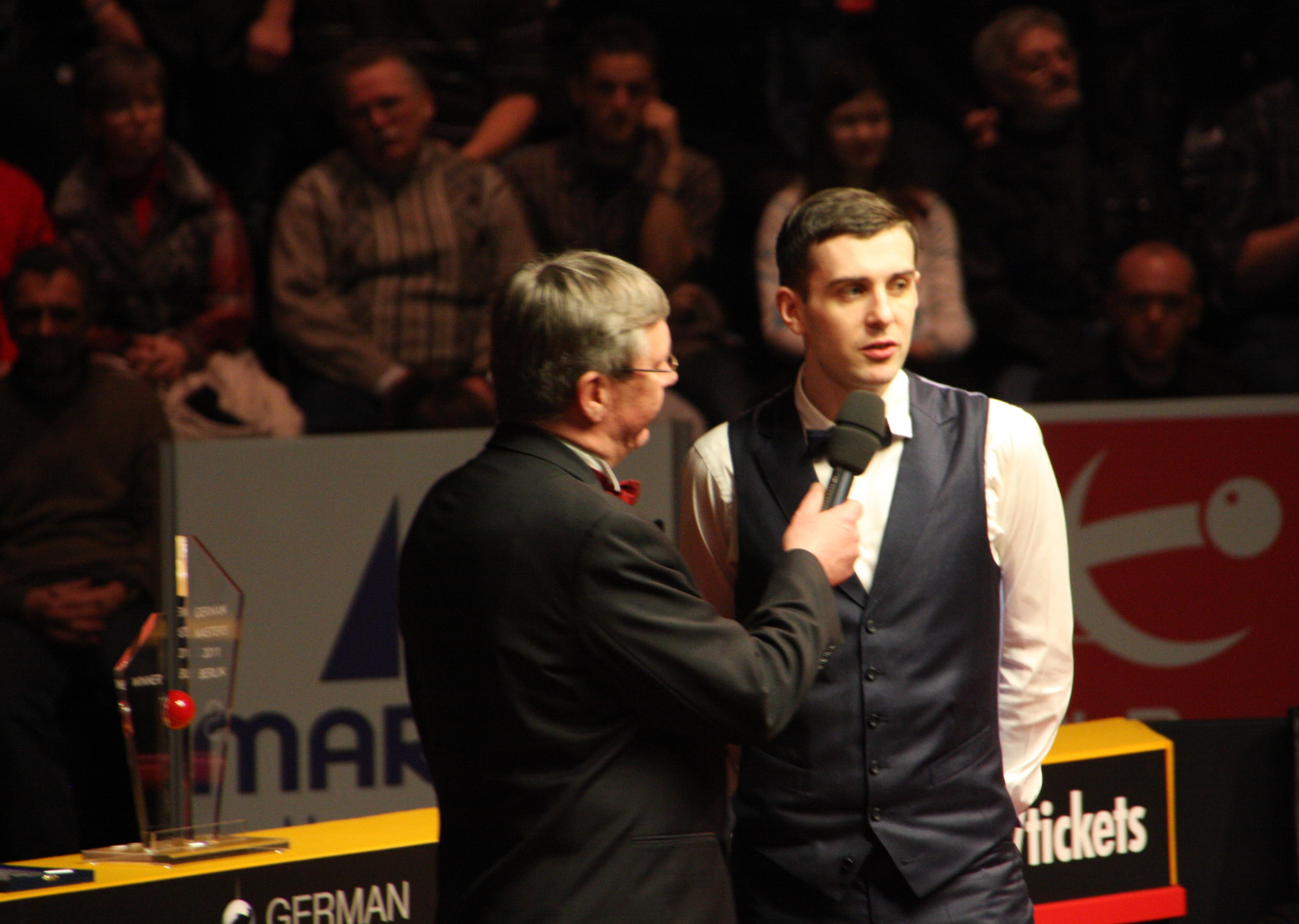 Snooker player Mark Selby interviewed by Rolf Kalb at the en:2011 German Masters